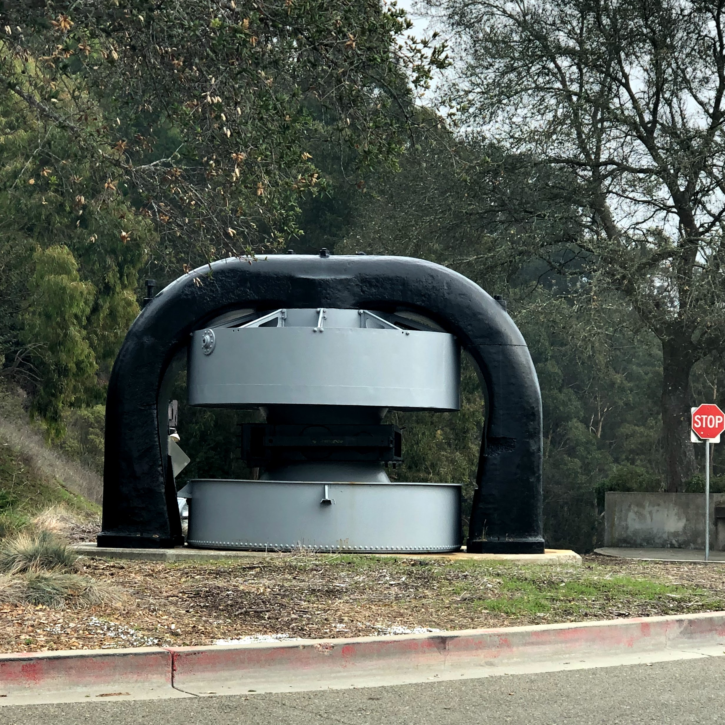 A 37 cyclotron at the parking lots of Lawrence Hall of Science, Berkeley California.